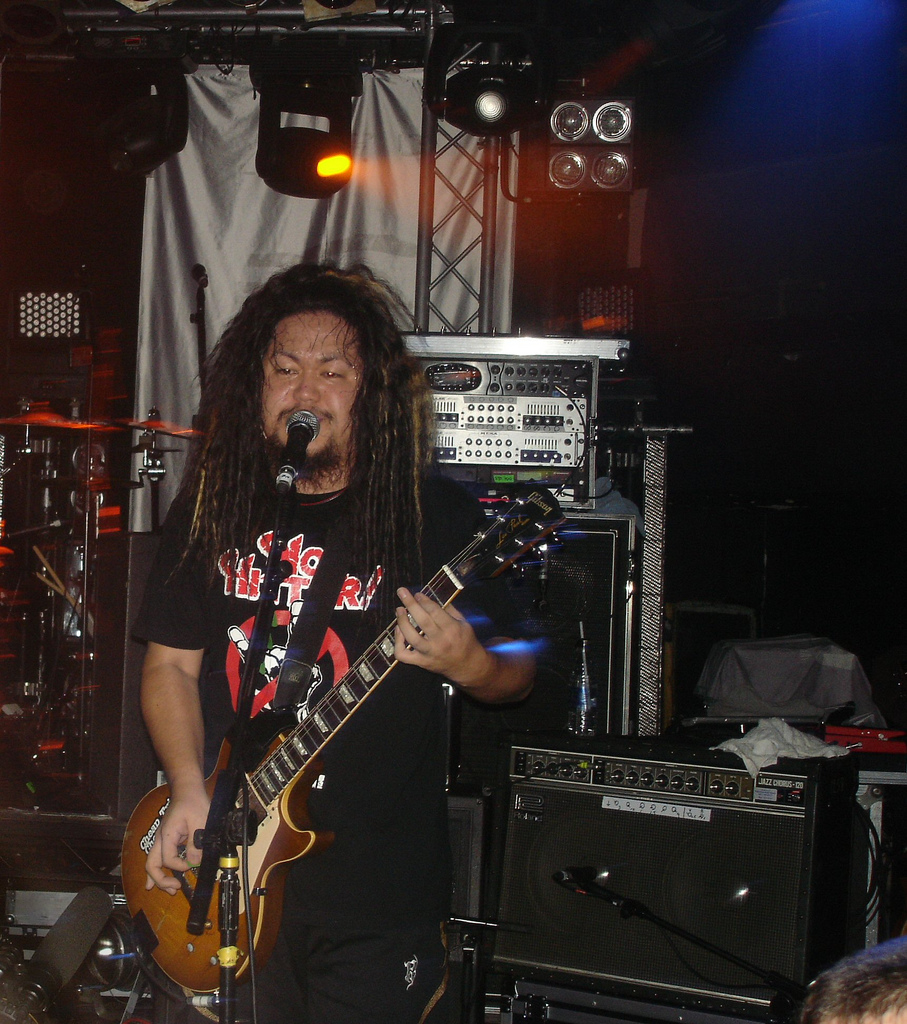 Enter Shikari, DJ Pdex, Maximum the Hormone & An Albatross Perform at the Astoria 2 on 3rd Oct 2008. Enter Shikari, DJ Pdex, Maximum the Hormone & An Albatross Perform at the Astoria 2 on 3rd Oct 2008.